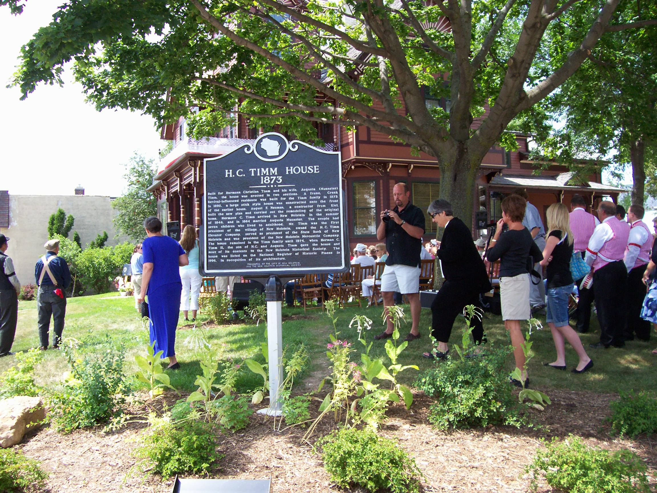 The road sign and crowd for the Herman C. Timm House in New Holstein, Wisconsin, USA. Unveiled at the house's rededication. The house is on the National Registry of Historic Places.